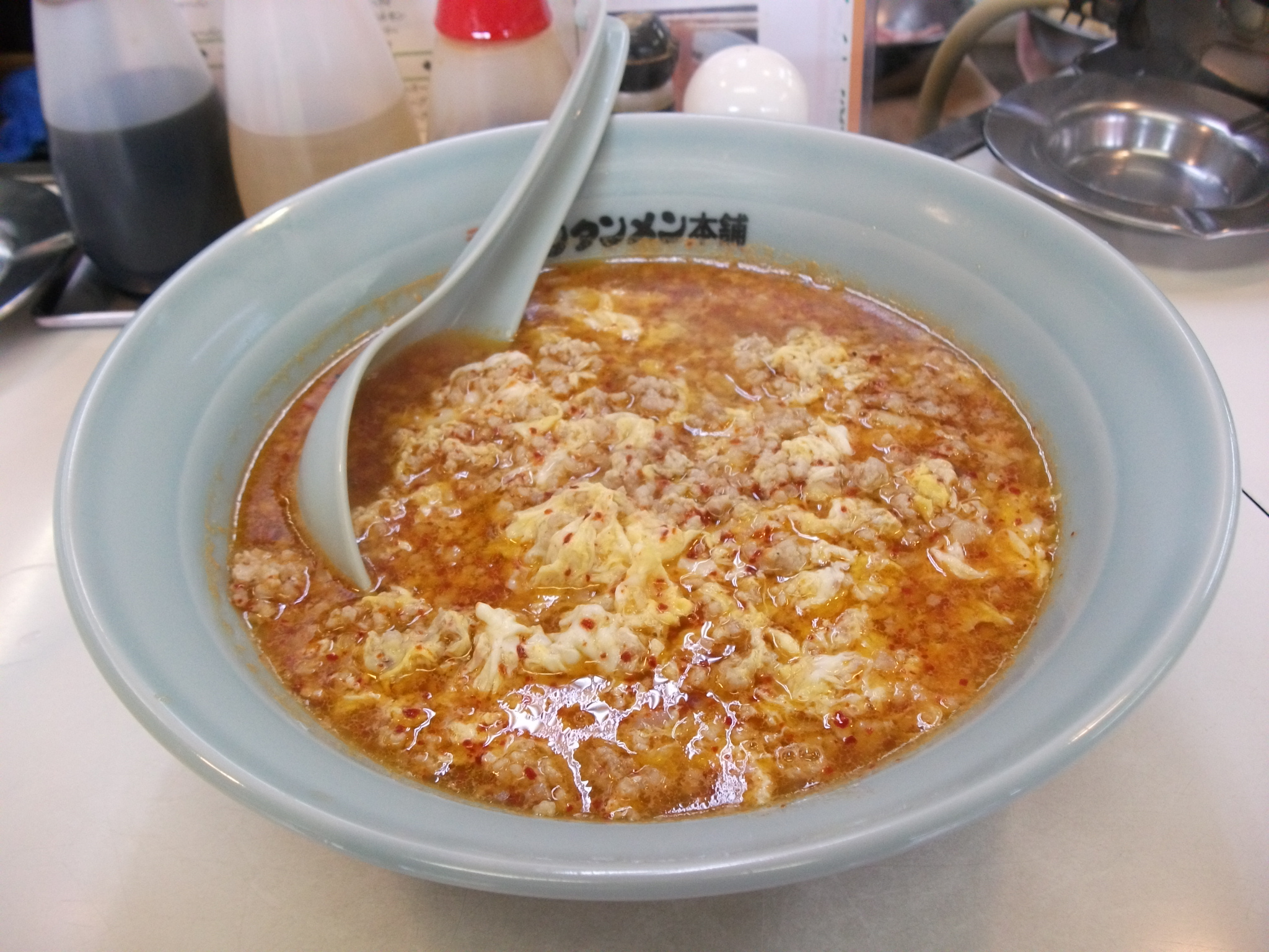 New-Tantanmen (Japanese Ramen)